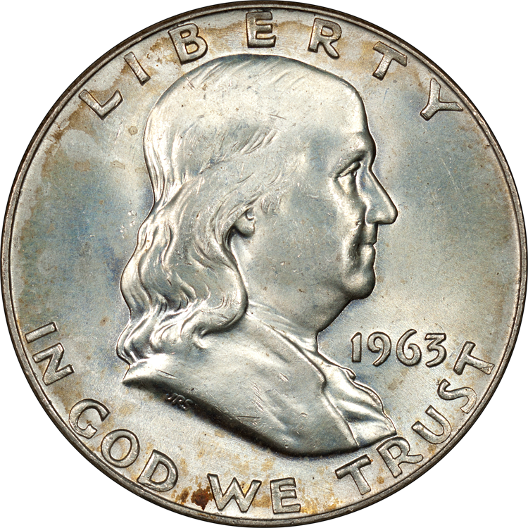 Image of a 1963 Franklin Half Dollar, Obverse.